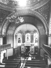 Interior of the Pforzheim synagogue, destroyed by the nazis during the Kristal Nacht